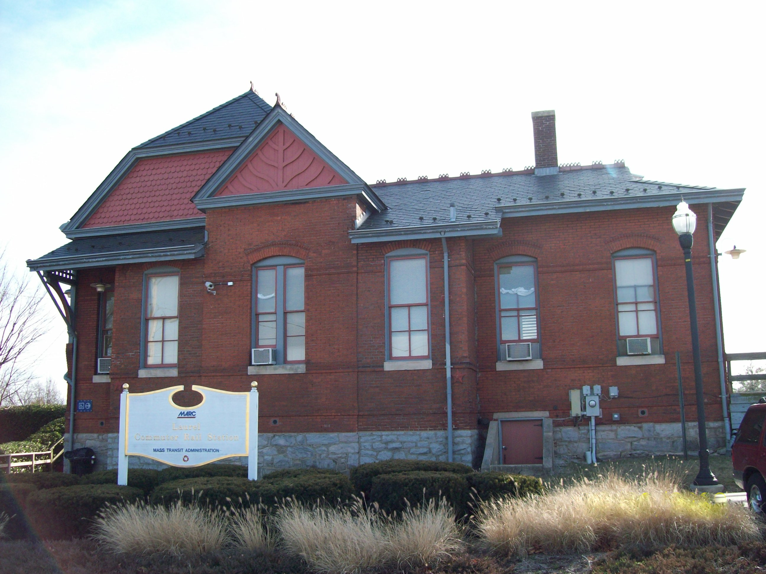 Laurel Railroad Station West Side View, Laurel, Maryland, December 2008